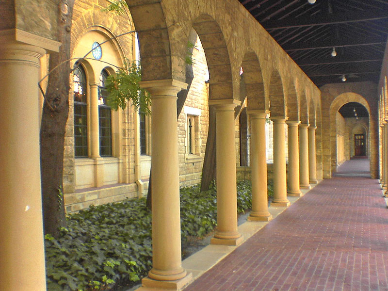 Photograph of limestone pillars taken near the heritage administration buildings of the University of Western Australia.